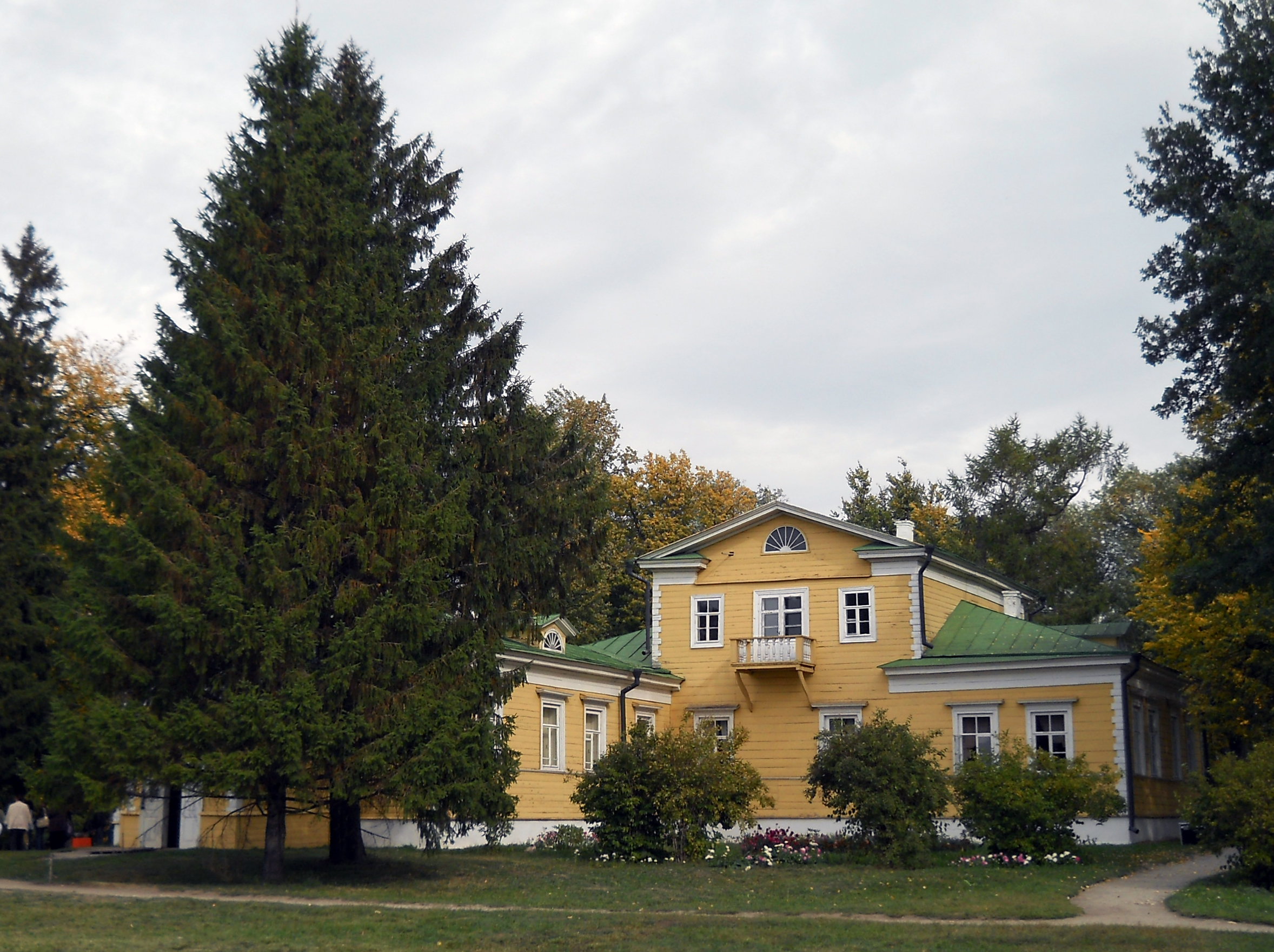 Bolshoye Boldino. Pushkins' Family manor, now Alexander Pushkin Museum